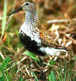 Dunlin (Calidris alpina) Source: WO-10266-53 Subject: bird, animal, Yukon Delta National Wildlife Refuge, Alaska